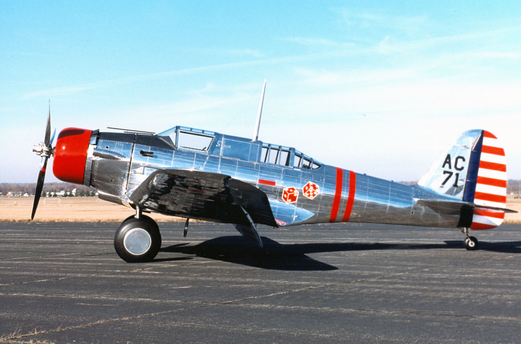 Northrop A-17A s/n 36-0207 at the National Museum of the United States Air Force